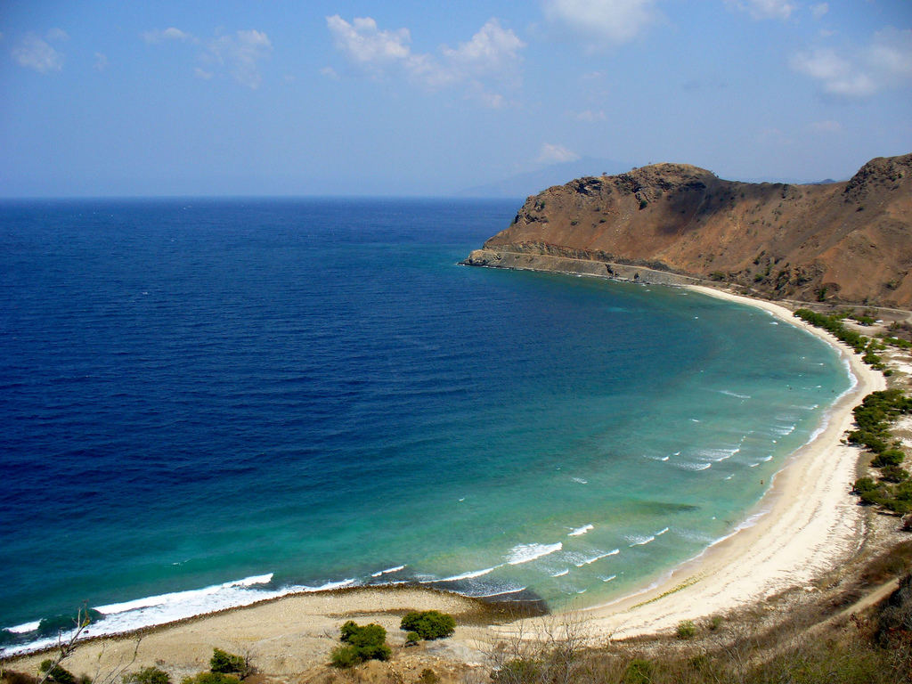 Jesus Backside Beach, Dili, East Timor